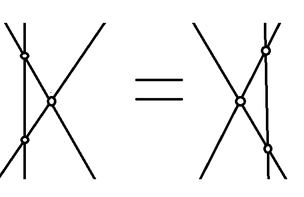 Shows graphical calculus of Yang Baxter equation with 3 strands being factorized into permutations in two different ways.